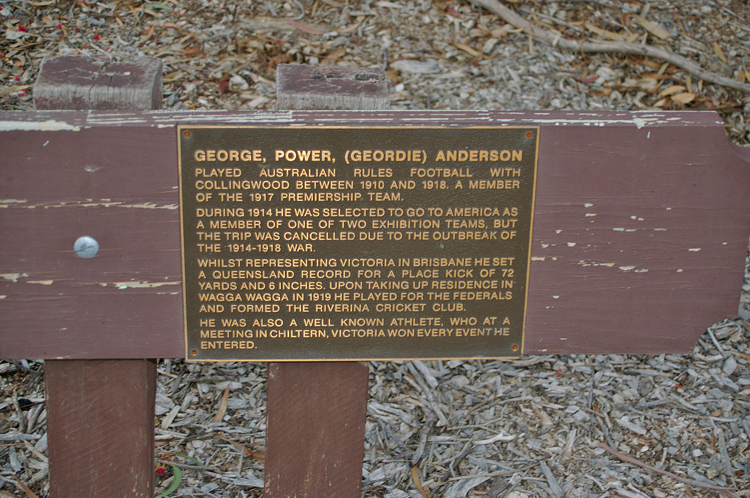 Anderson Park, Wagga Wagga, New South Wales